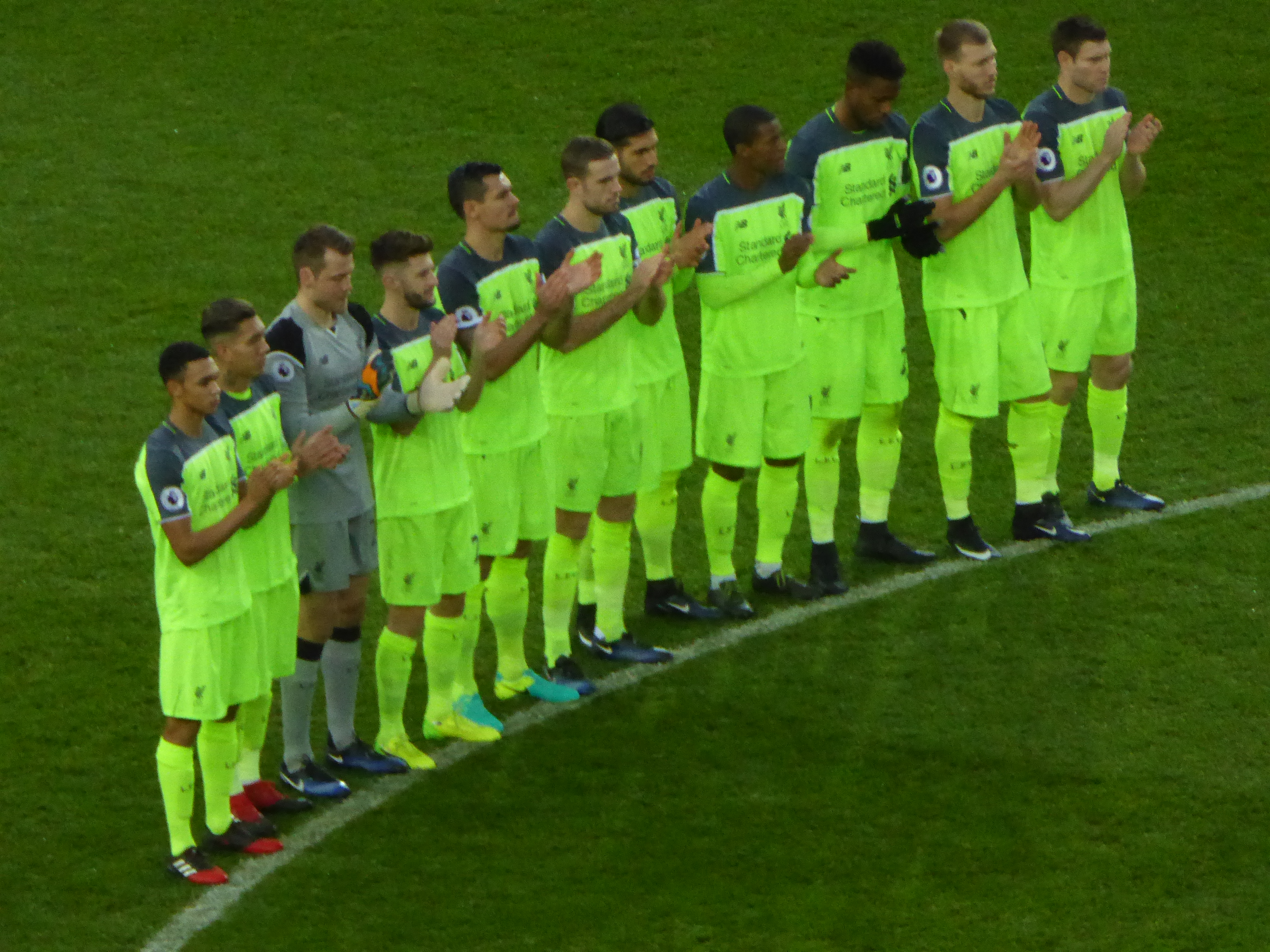 Manchester United v Liverpool (1-1), Premier League, Old Trafford, Manchester, Greater Manchester, England, January 2017